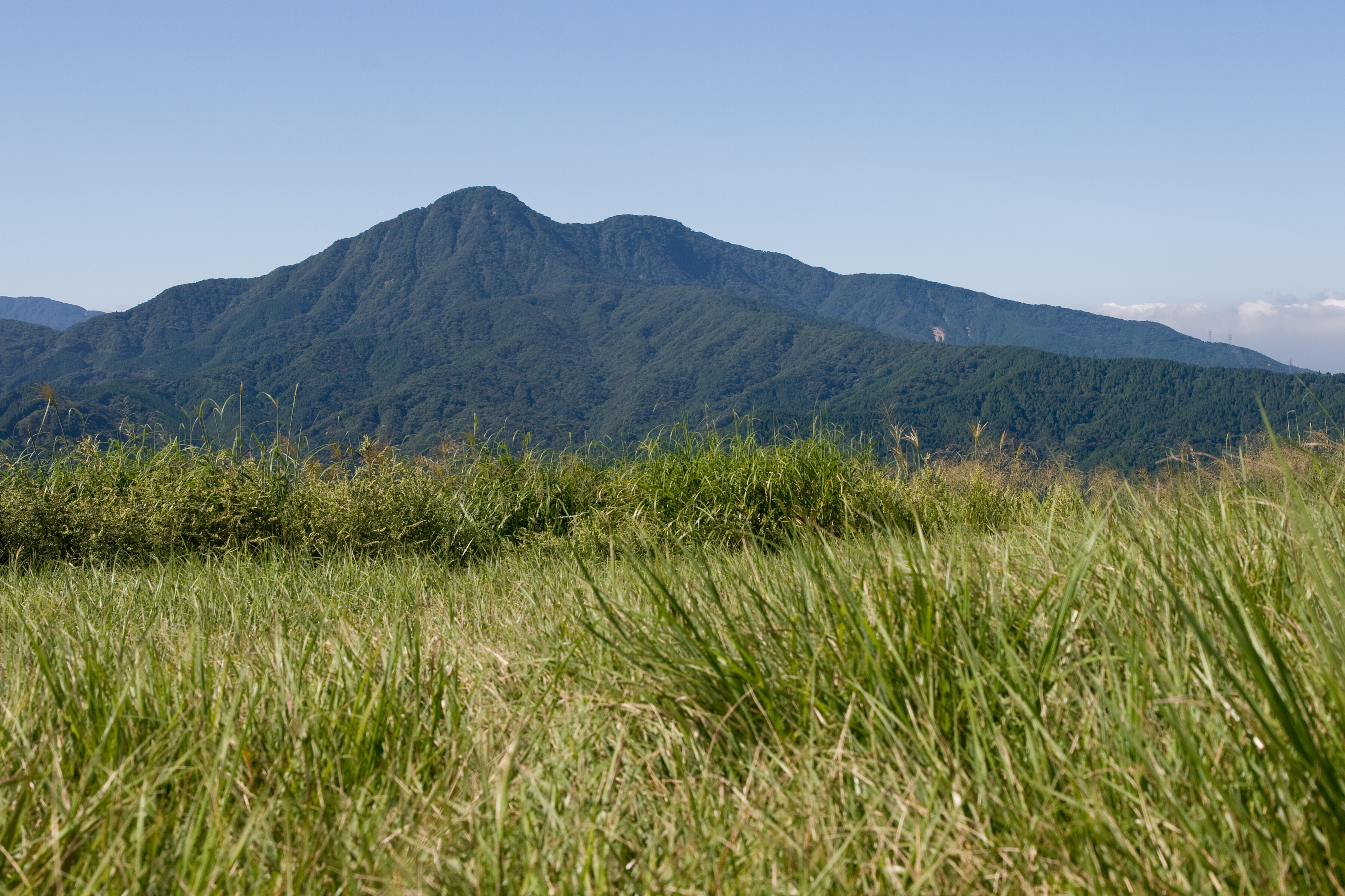 Mt.Kintoki as seen from Mt.Yaguradake in Kanagawa Prefecture, Honshu, Japan.